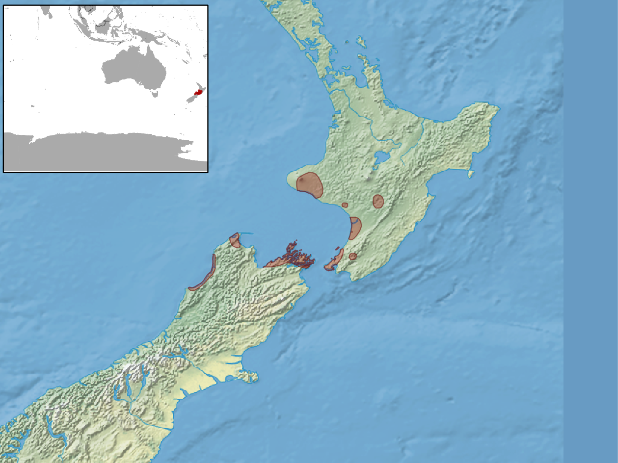 geographic distribution of Oligosoma zelandicum